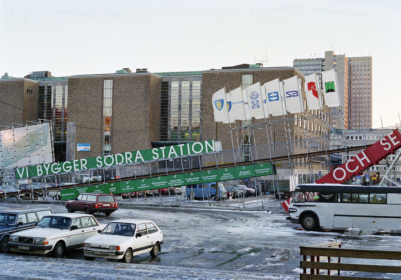 FOTOGRAFIMedborgarhuset och Medborgarplatsen mot söder. 1988-1988FOTOGRAF: Bergqvist, Stellan.BILDNUMMER: Ff 369Stadsmuseet i Stockholm